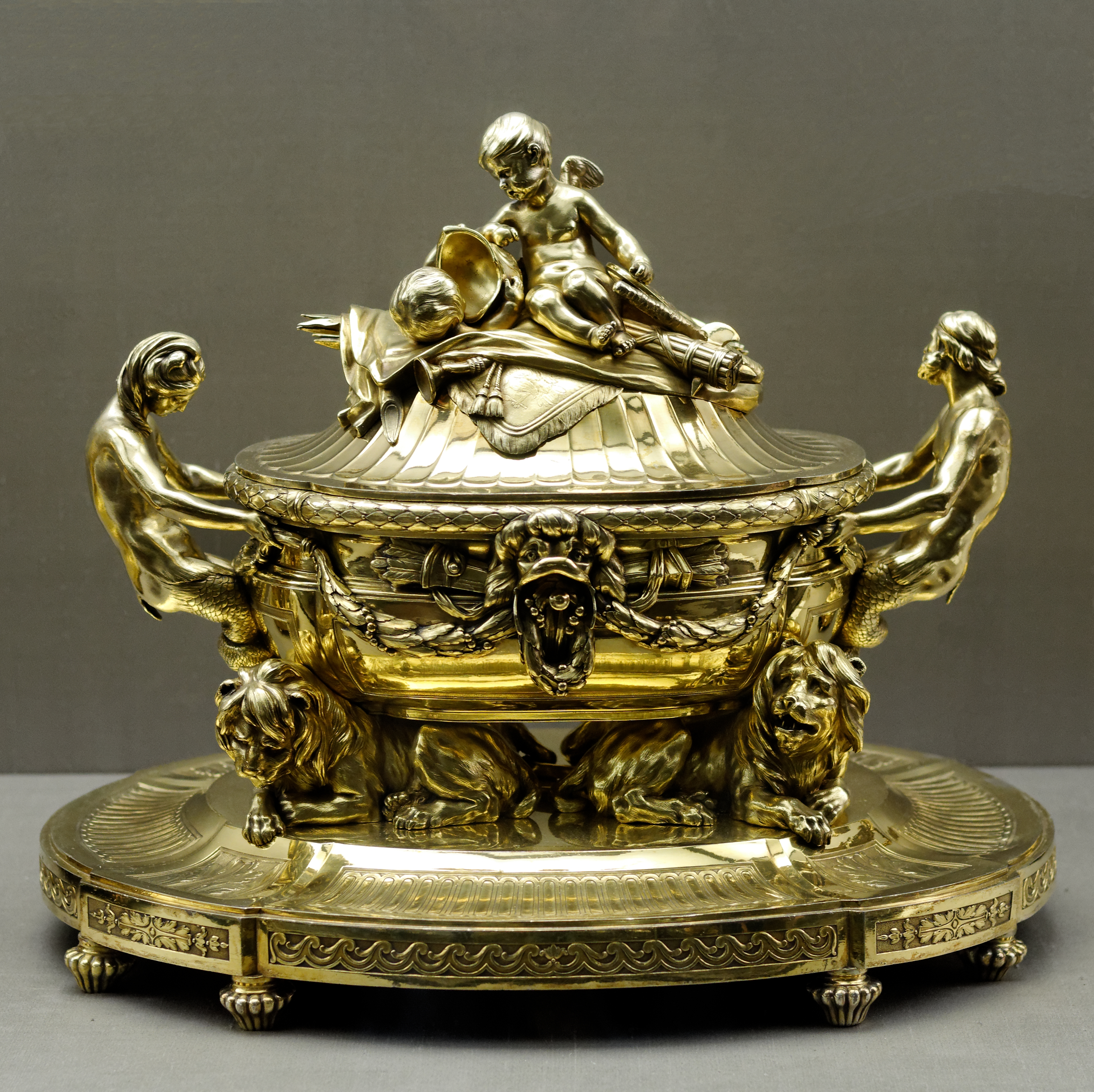 Tureen form Paul Charvel, Paris ca 1769-1770. Gilded silver. Calouste Gulbenkian Museum, Lisbon